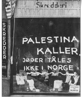 The picture shows a Jewish owned tailor-shop in Oslo in early 1942, with the graffiti saying: "Palestine calls, Jews are not tolerated in Norway".